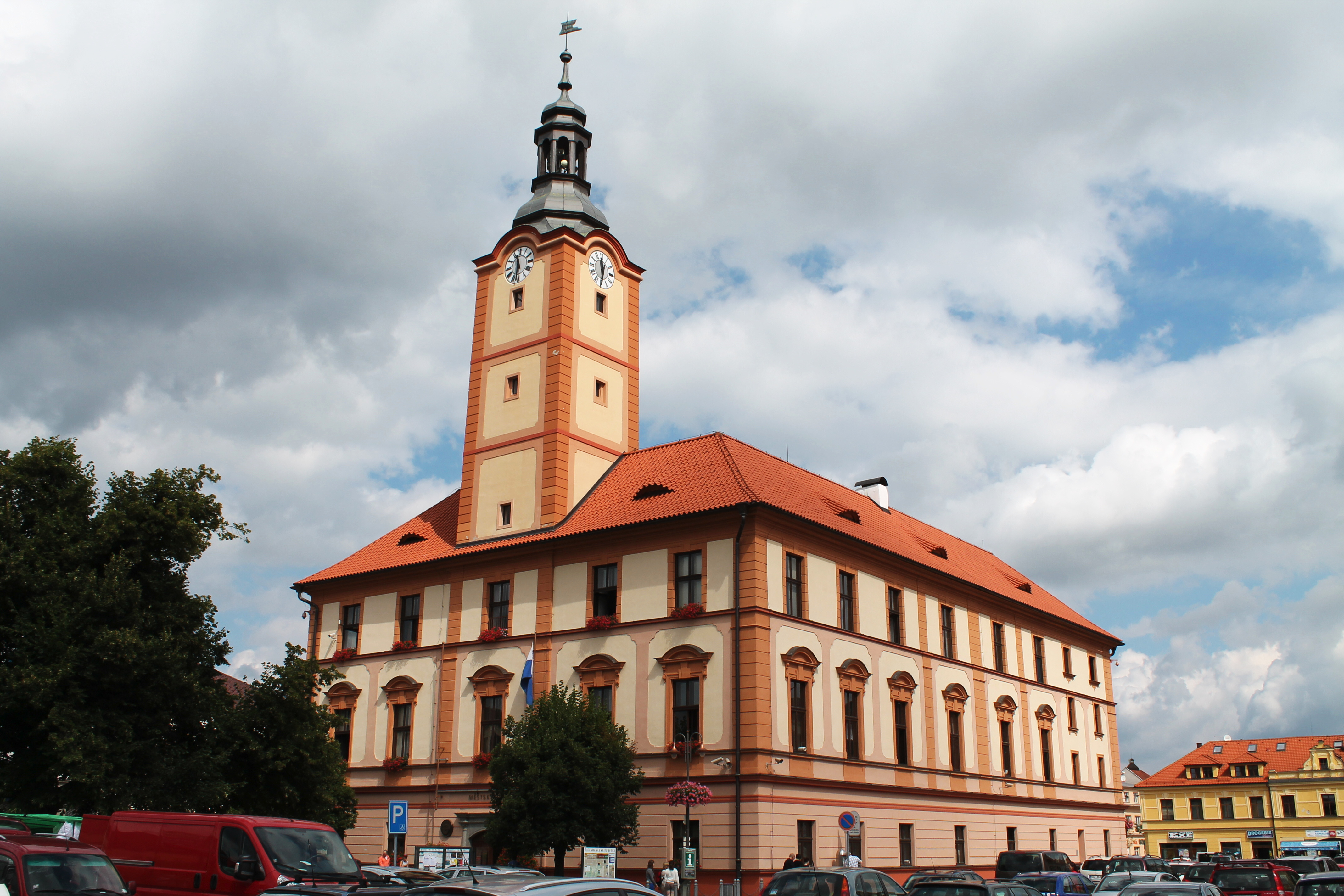 Town hall, Sušice, Klatovy District, Czech Republic - Google Maps - Google Earth